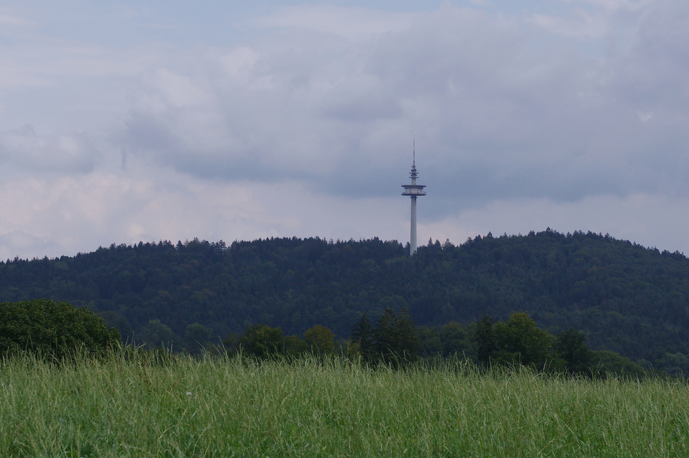 View on Hohe Brach, Baden-Württemberg, Germany